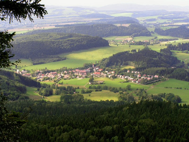 Machov Town (Hradec Králové Region, Czech Republic).